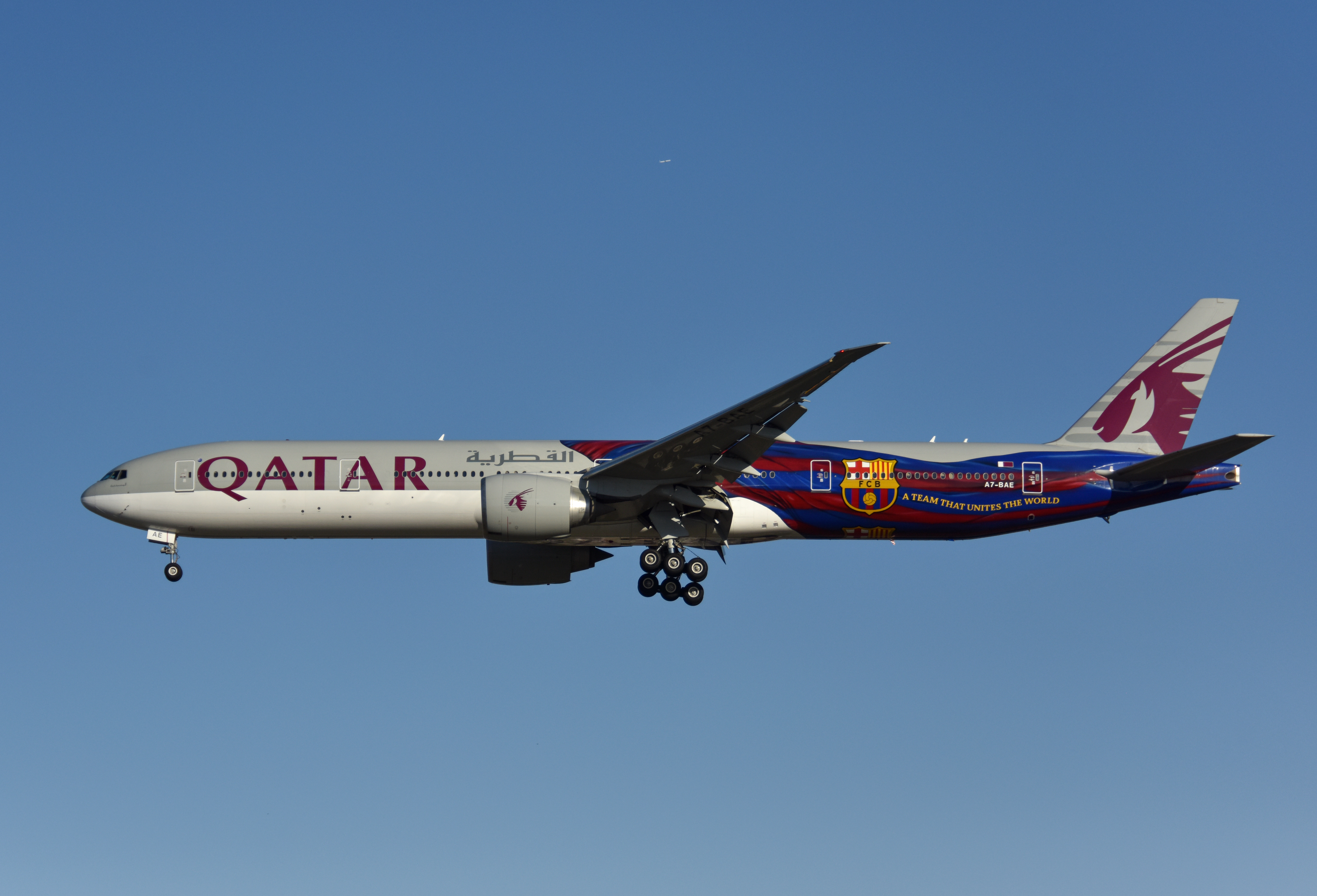 Qatari 892 from Doha, with FC Barcelona "A team that unites the world" advertisement.